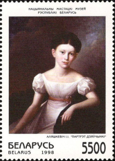 Stamp of Belarus